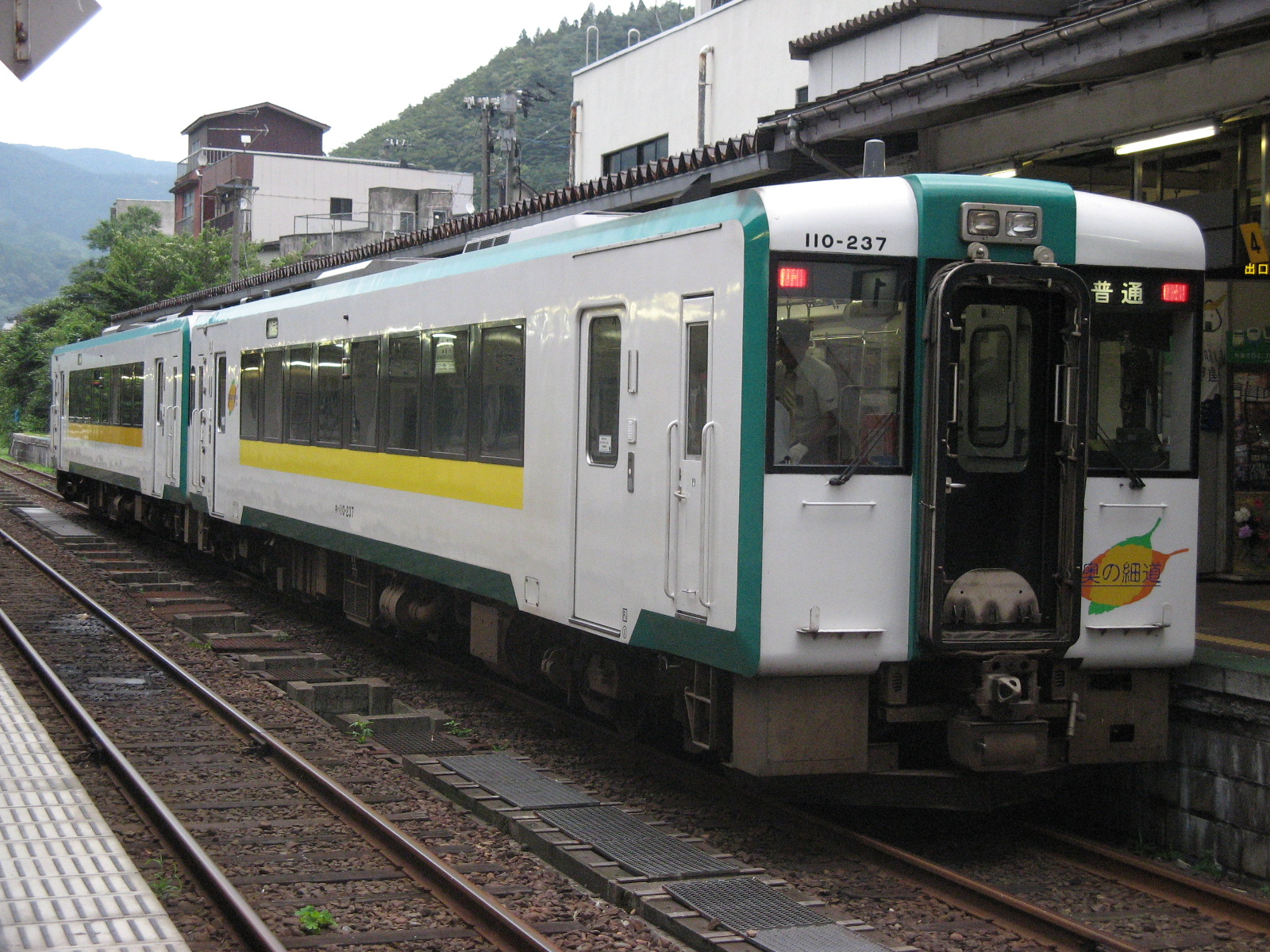 A pair of JR East KiHa 110-200 series DMU cars with KiHa 110-237 at the rear at Naruko-Onsen Station on the Rikuu East Line